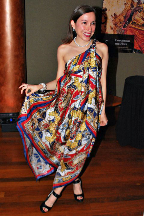 Fashion designer Marisol Deluna at the Rubin Museum in New York, NY on November 18, 2010